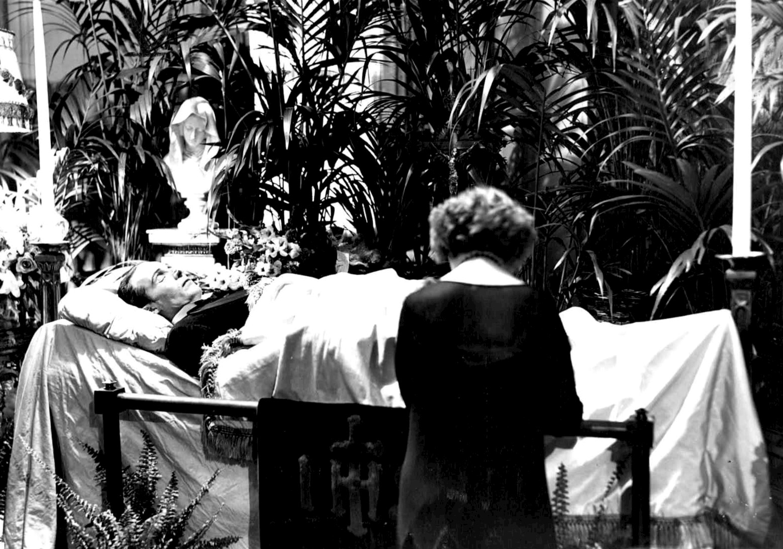 Photo of Rudolph Valentino lying in state at Frank E. Campbell Funeral Chapel in August 1926. The funeral home was then located on Broadway.